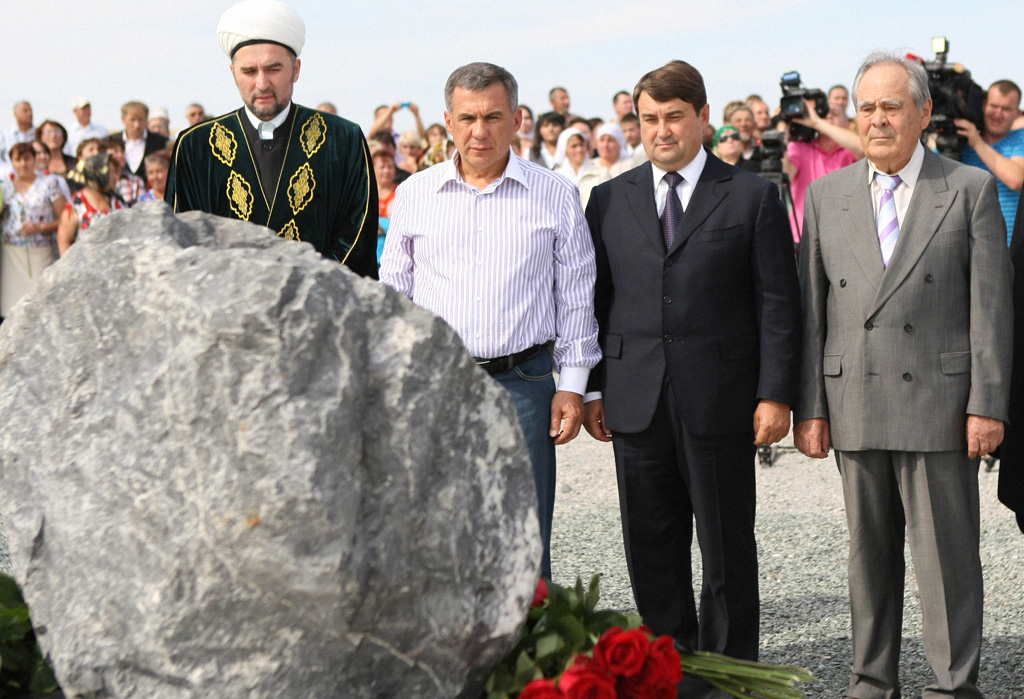 “Breaking ground for chapel and mosque to commemorate Bulgaria shipwreck victims”. From left: Tatarstan Mufti Ildus Faizov, Tatarstan Head Rustam Minnikhanov, Russian Transport Minister Igor Leviytin and Tatarstan State Councilor Mintimer Shaimiyev attending the ceremony of breaking ground for an Orhodox chapel and a mosque to commemorate the victims of the Bulgaria shipwreck in the Kama-Ustyinsky district.